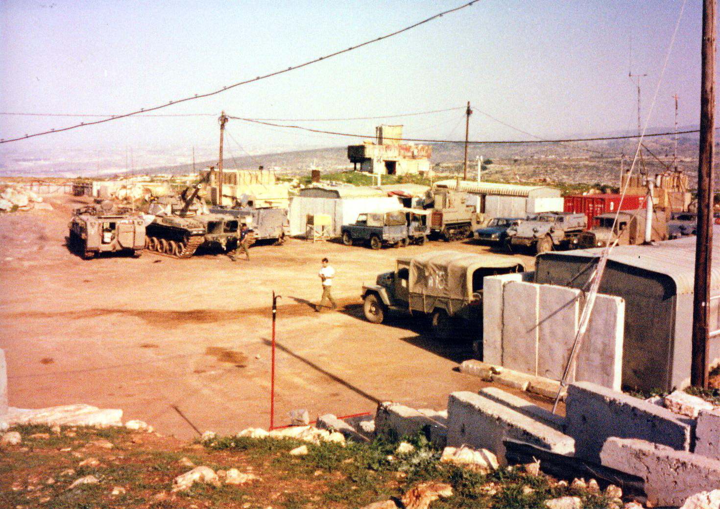 מוצב מוצב שקיף אל חרדון 1986